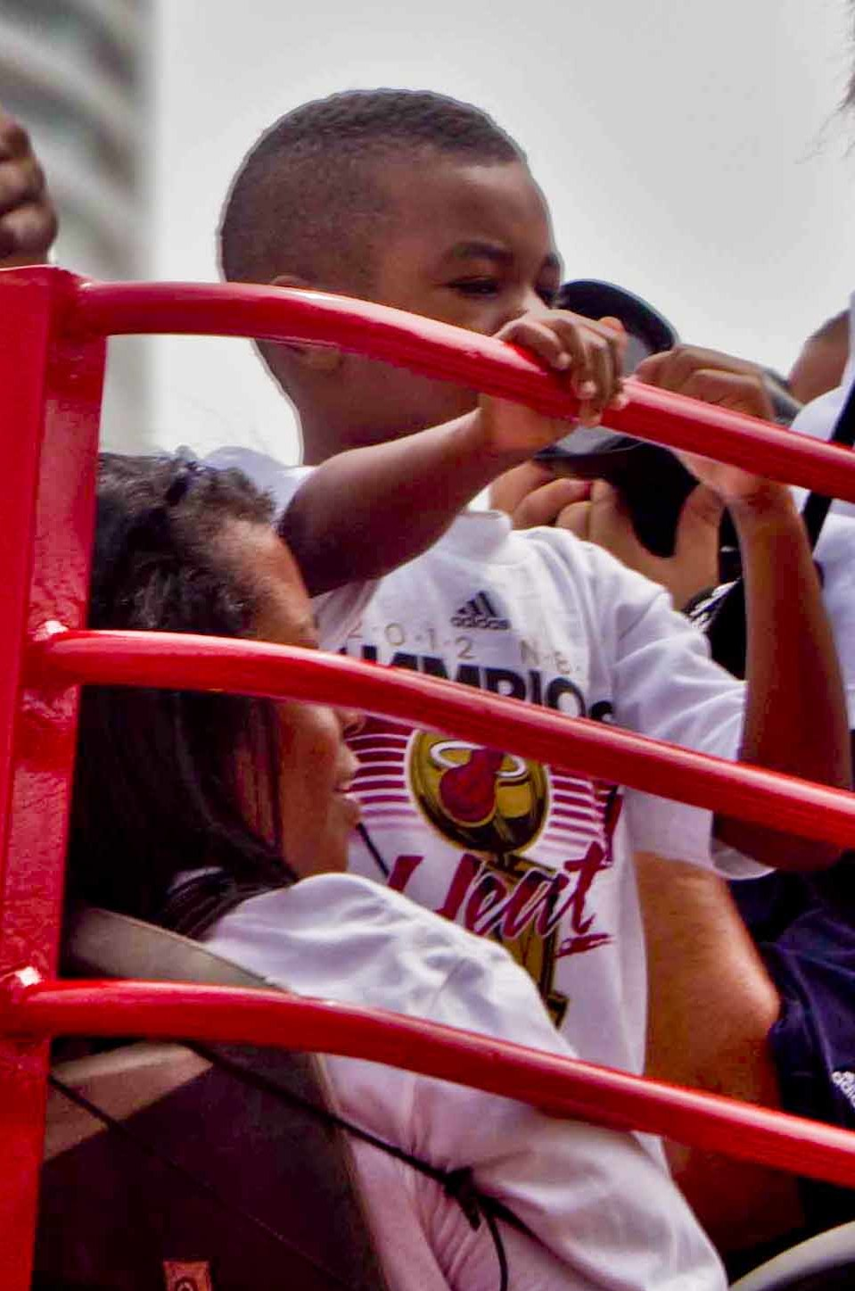 Lebron James - Champion, Championship MVP, League MVP